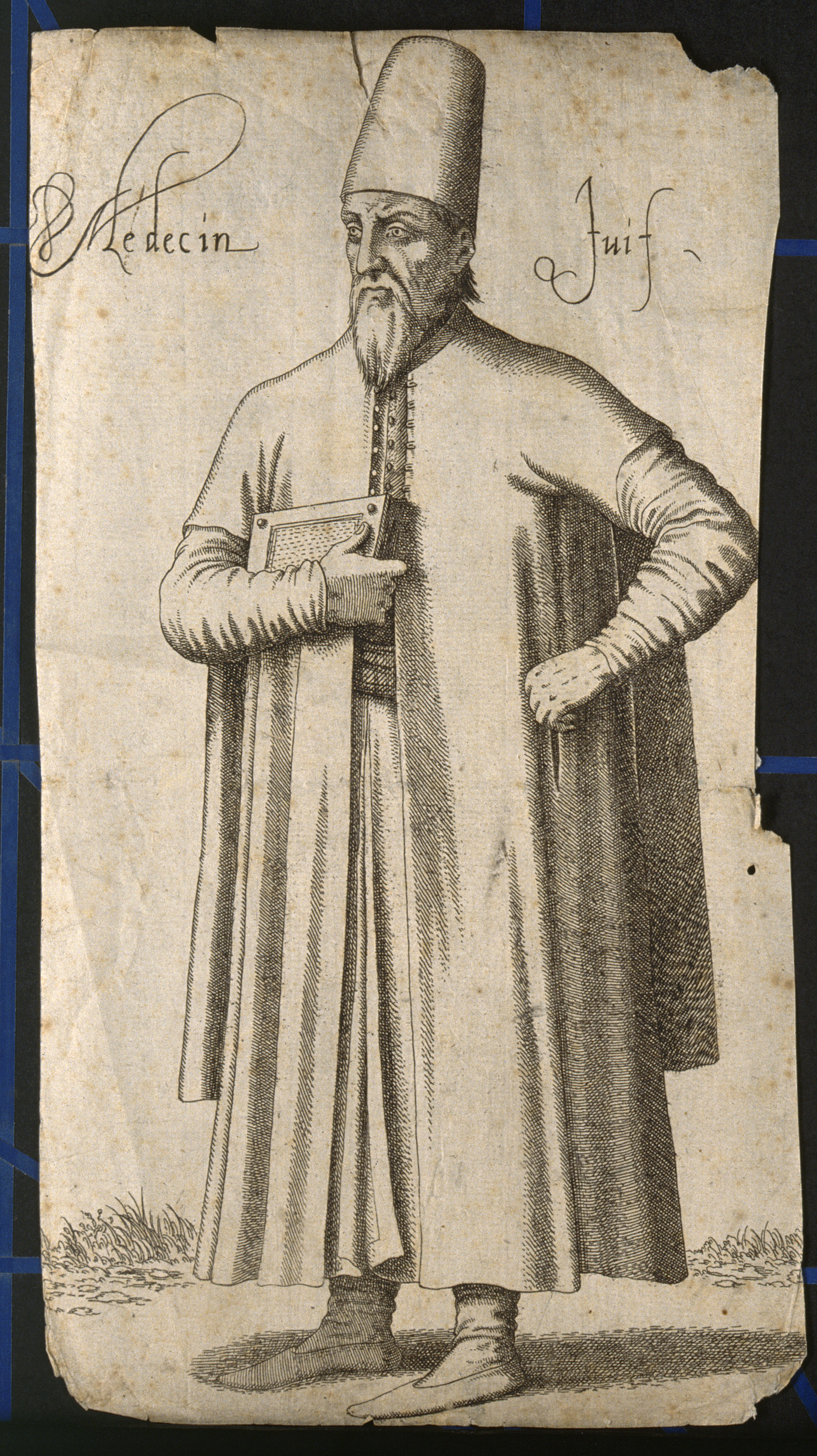 A Jewish physician in traditional costume. Engraving. Iconographic Collections